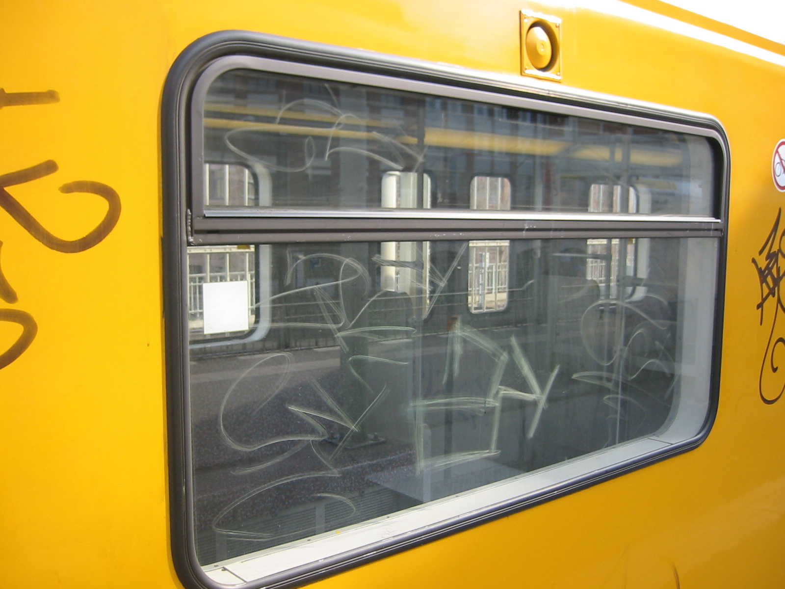 scratching u-bahn berlin recorded by User:Nicor